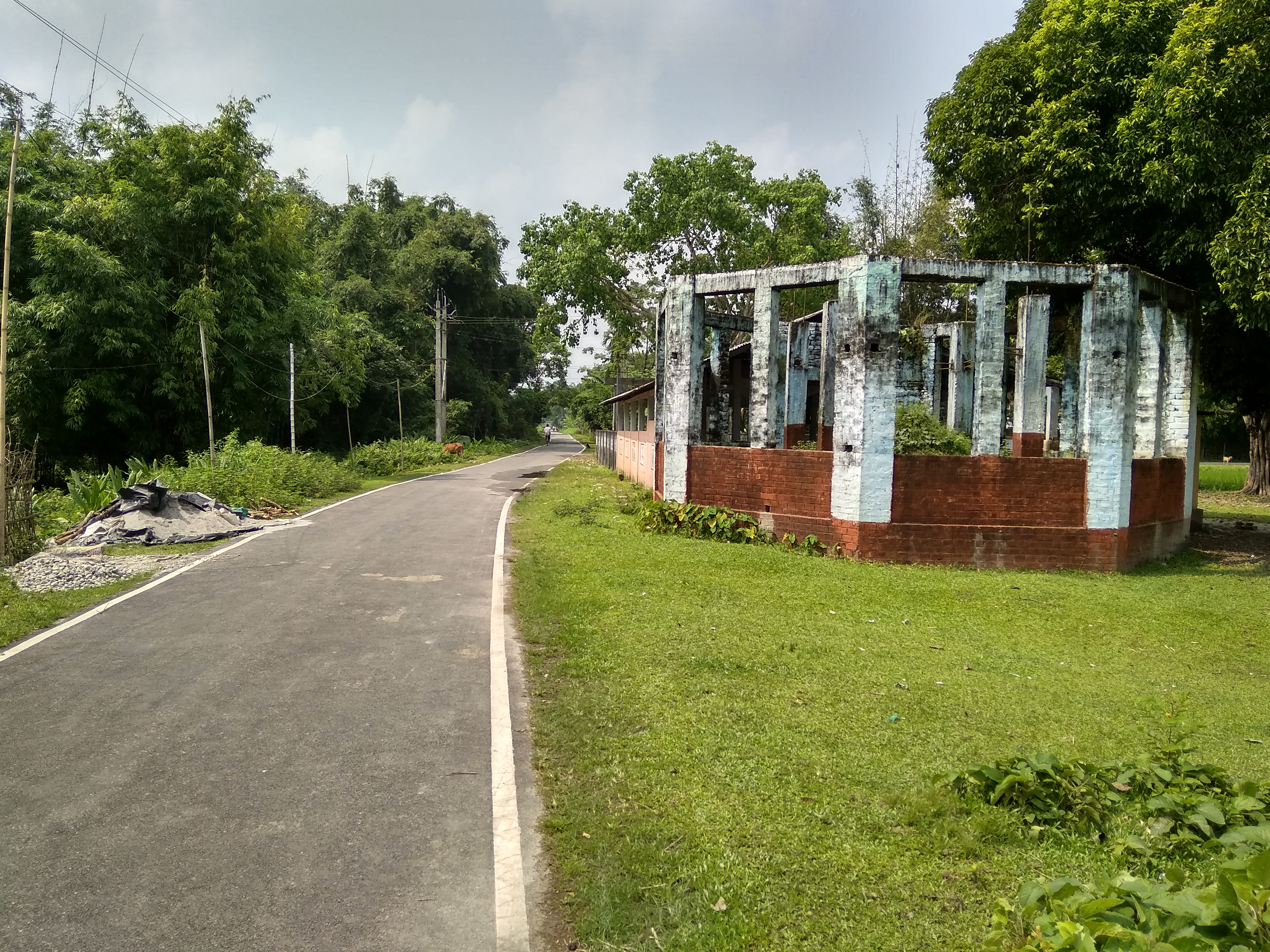 Gohai Kamal Ali is a road constructed by Gohai Kamal (Kamal Narayan), the brother of Naranarayana, the Koch King of Kamrupa. The road was built between 1546 and 1547 A.D. It starts at Koch Bihar in the west and ends at Narnarayanpur of North Lakhimpur in the east. With the passage of time it lost its existence in different parts but still it exists in Sorbhog, Barpeta, Assam.